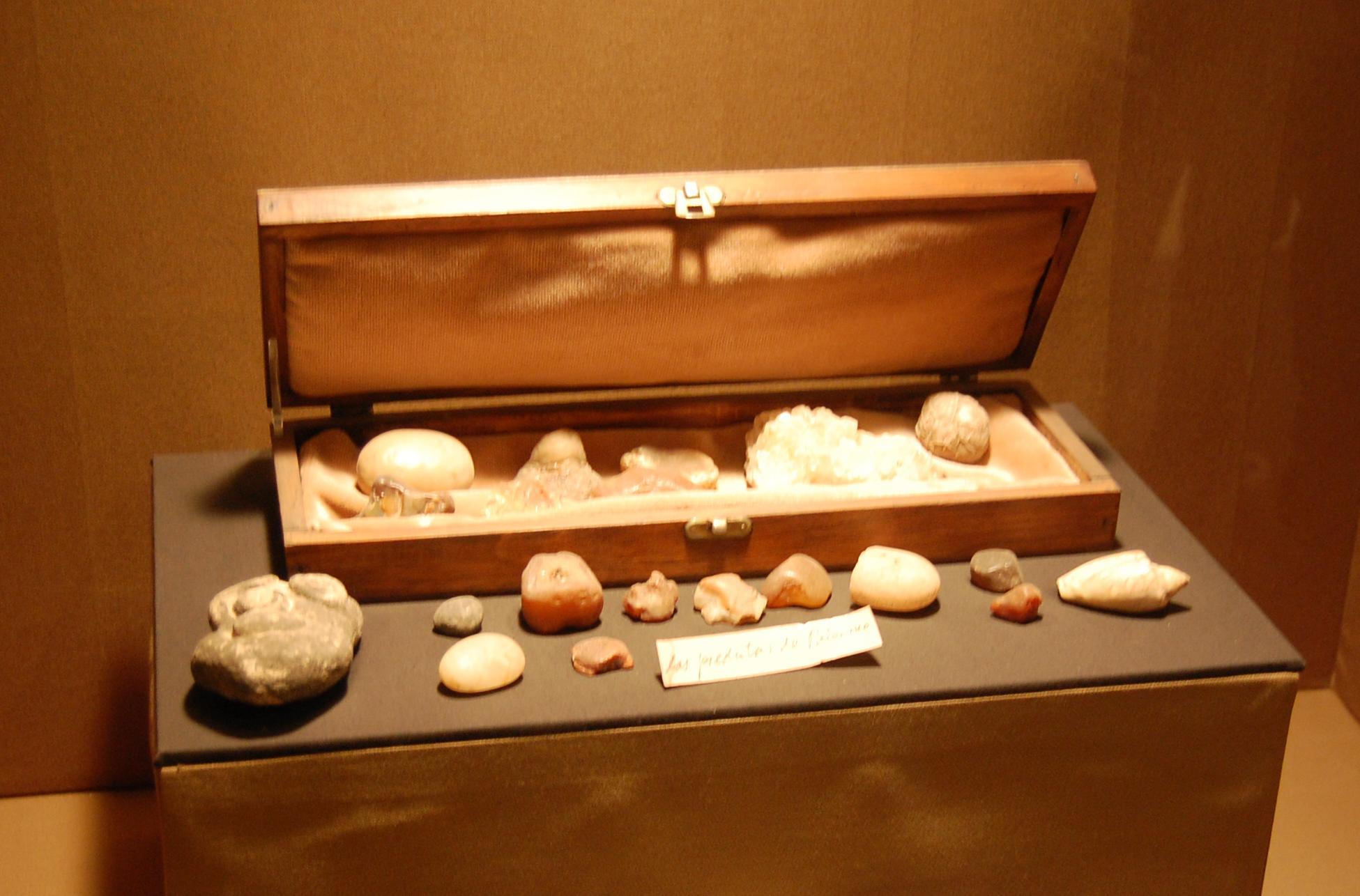 Stones picked up by Francisco Pascasio Moreno when he was child.